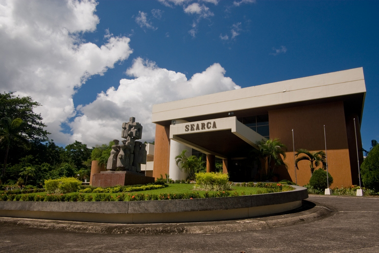 At University of the Philippines Los Baños